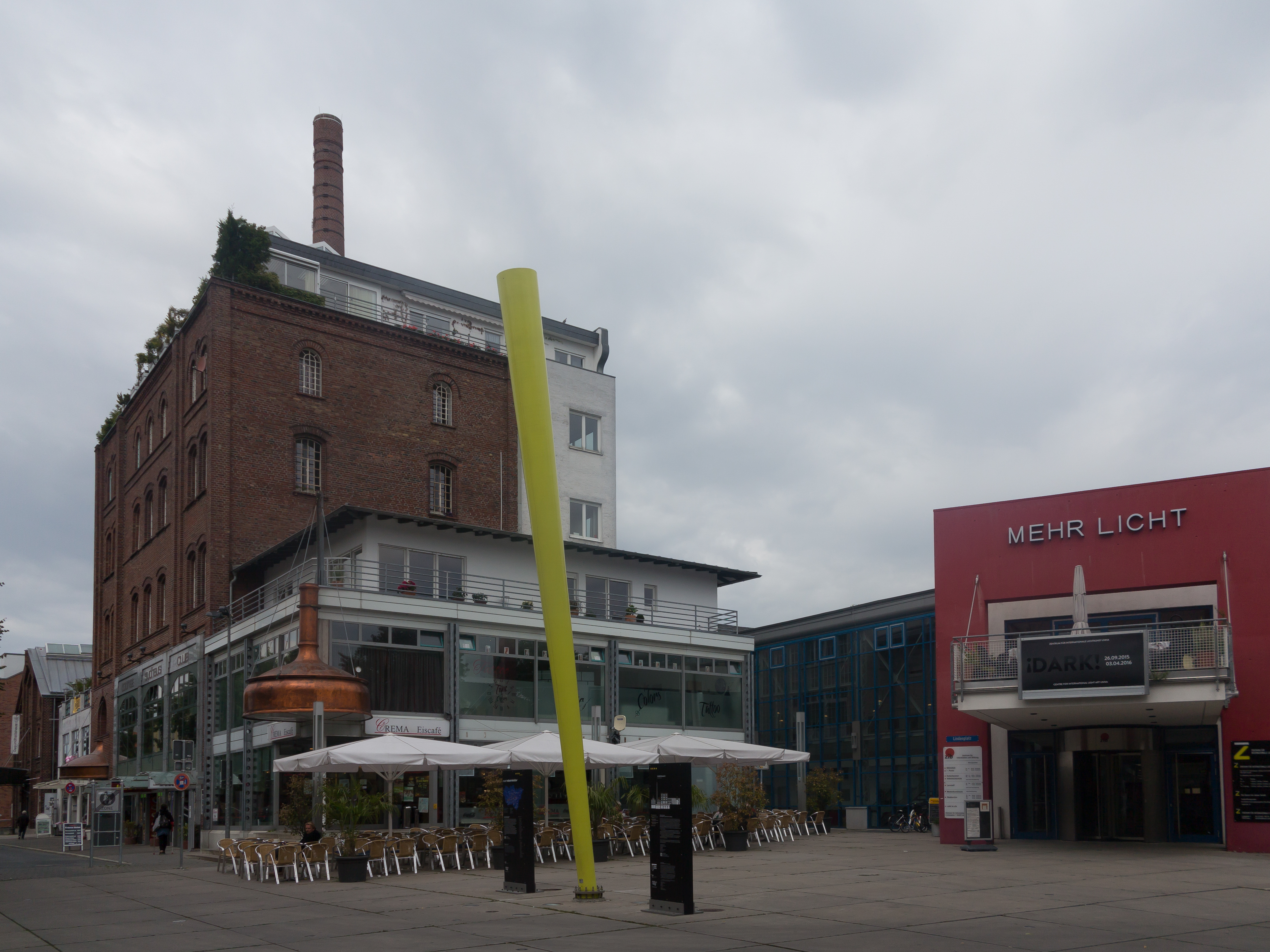 Unna, center for Internationale Lichtkunst